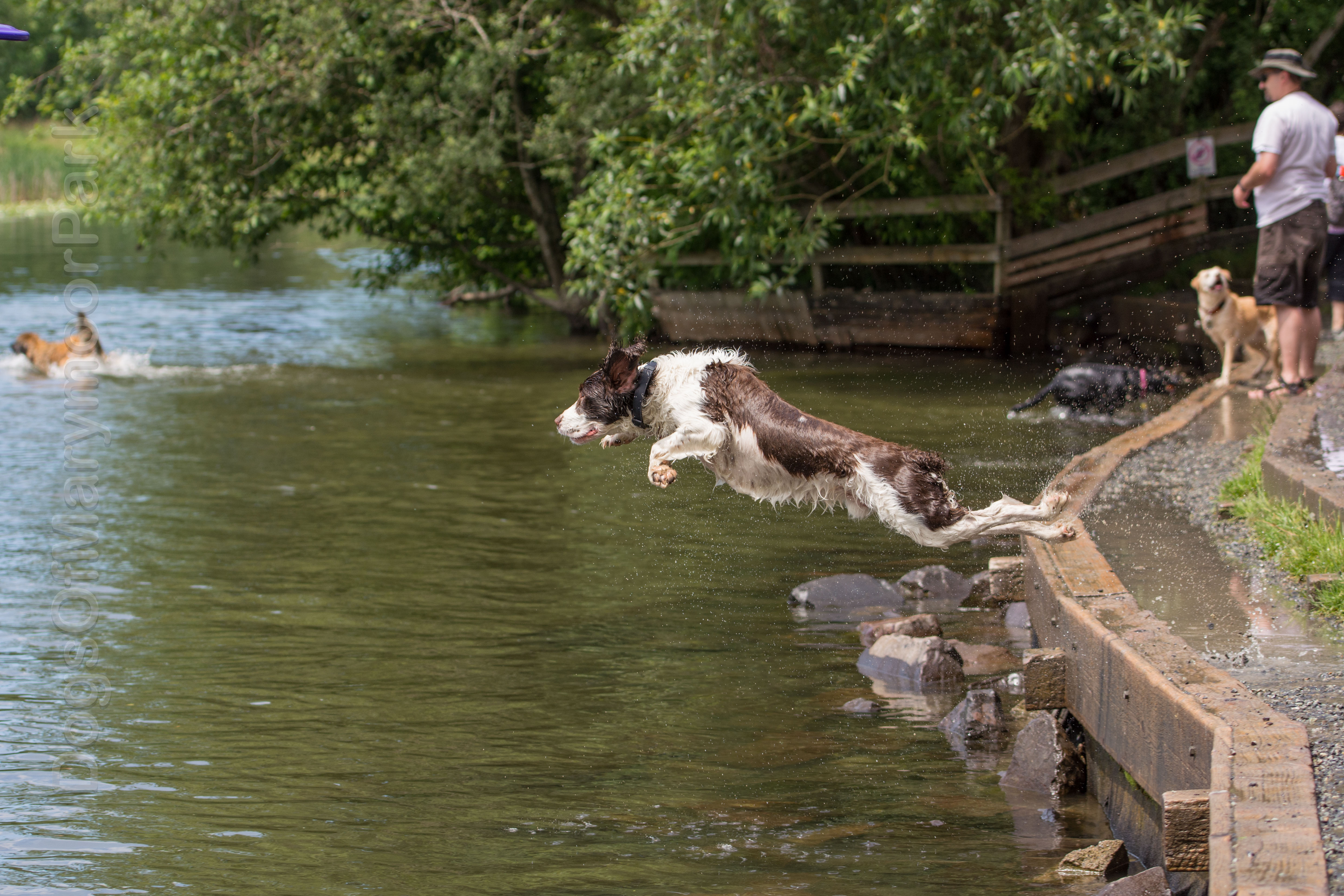 Dogs swimming at Marymoor Park